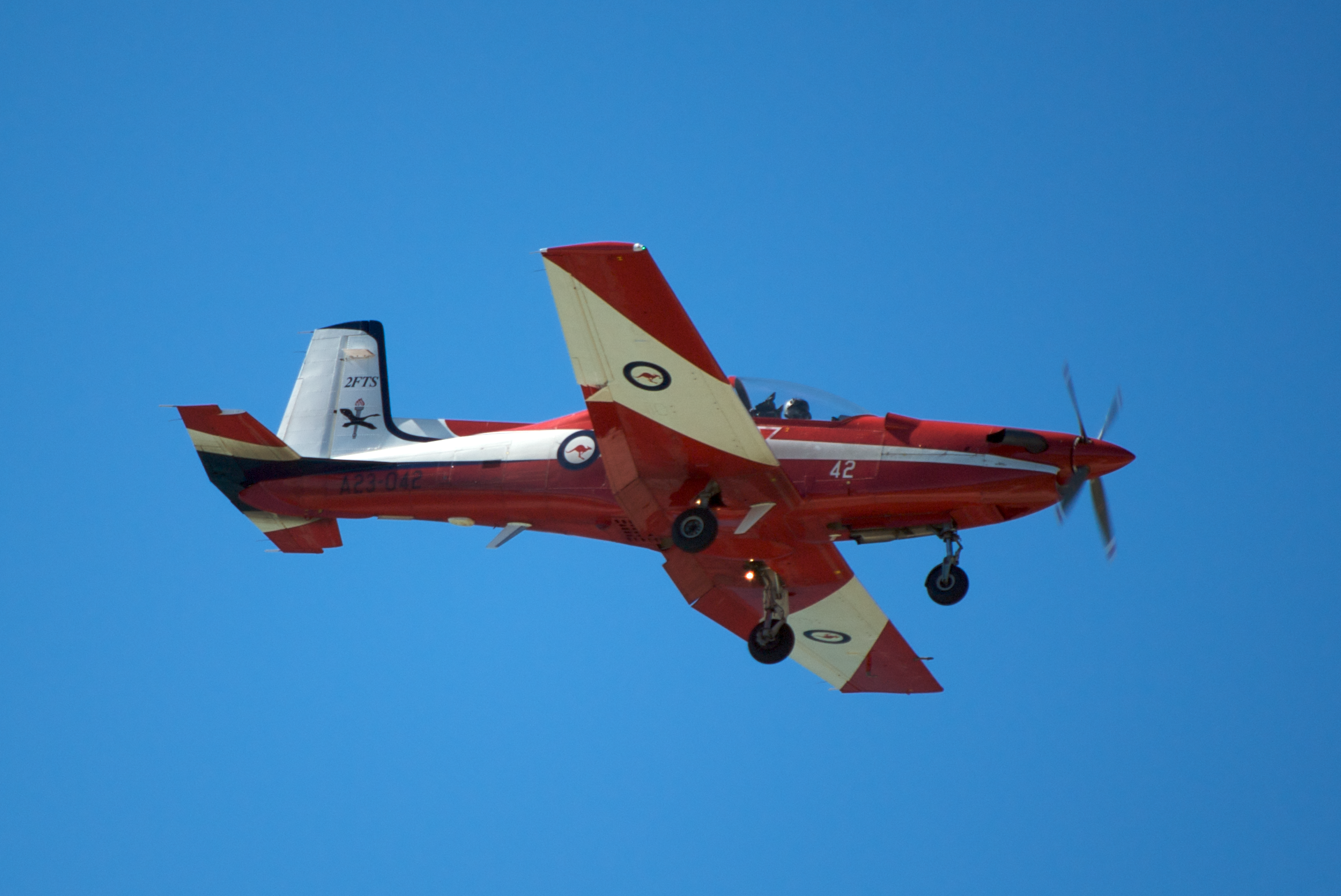 RAAF Pilatus PC-9 flying photographed from Rottnest Island